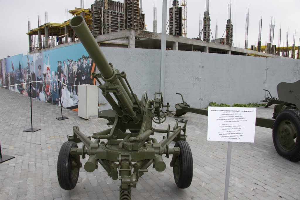 Verkhnyaya Pyshma Tank Museum 2011